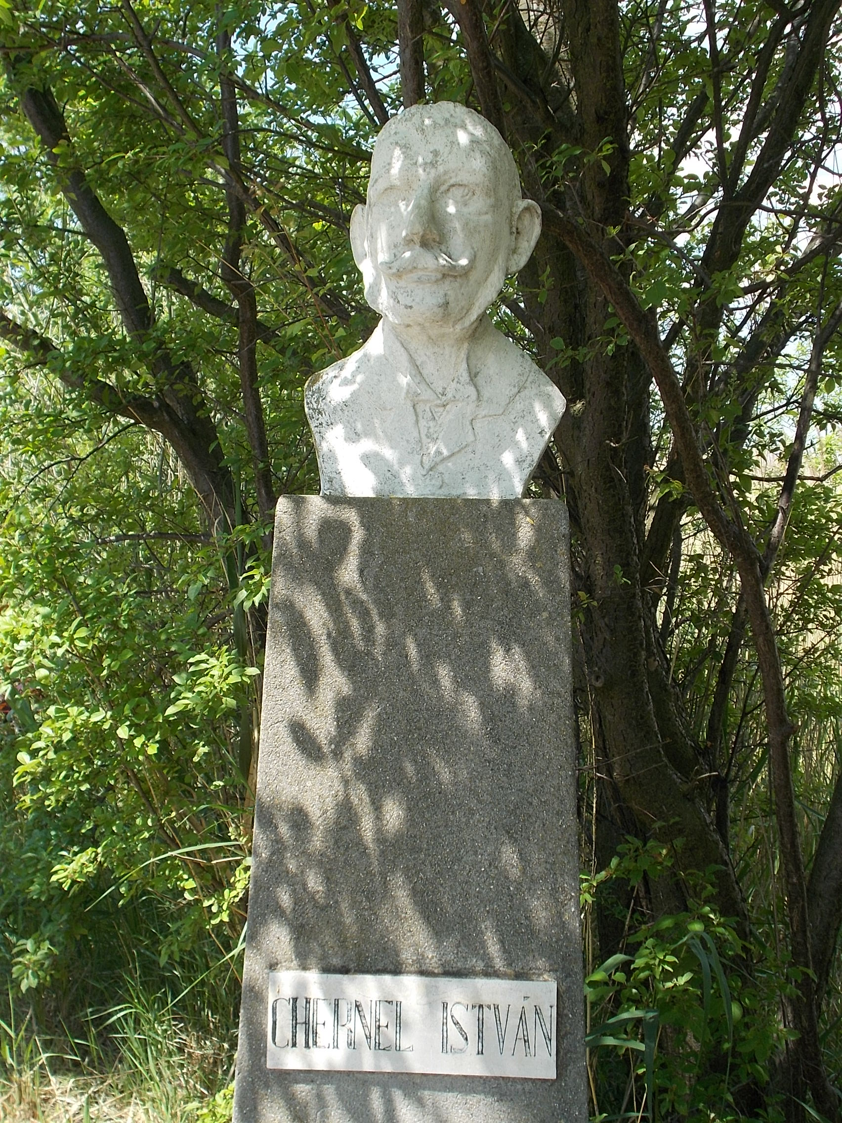 Bust of István Chernel - Chernel Street, Agárd, Gárdony, Fejér County, Hungary.